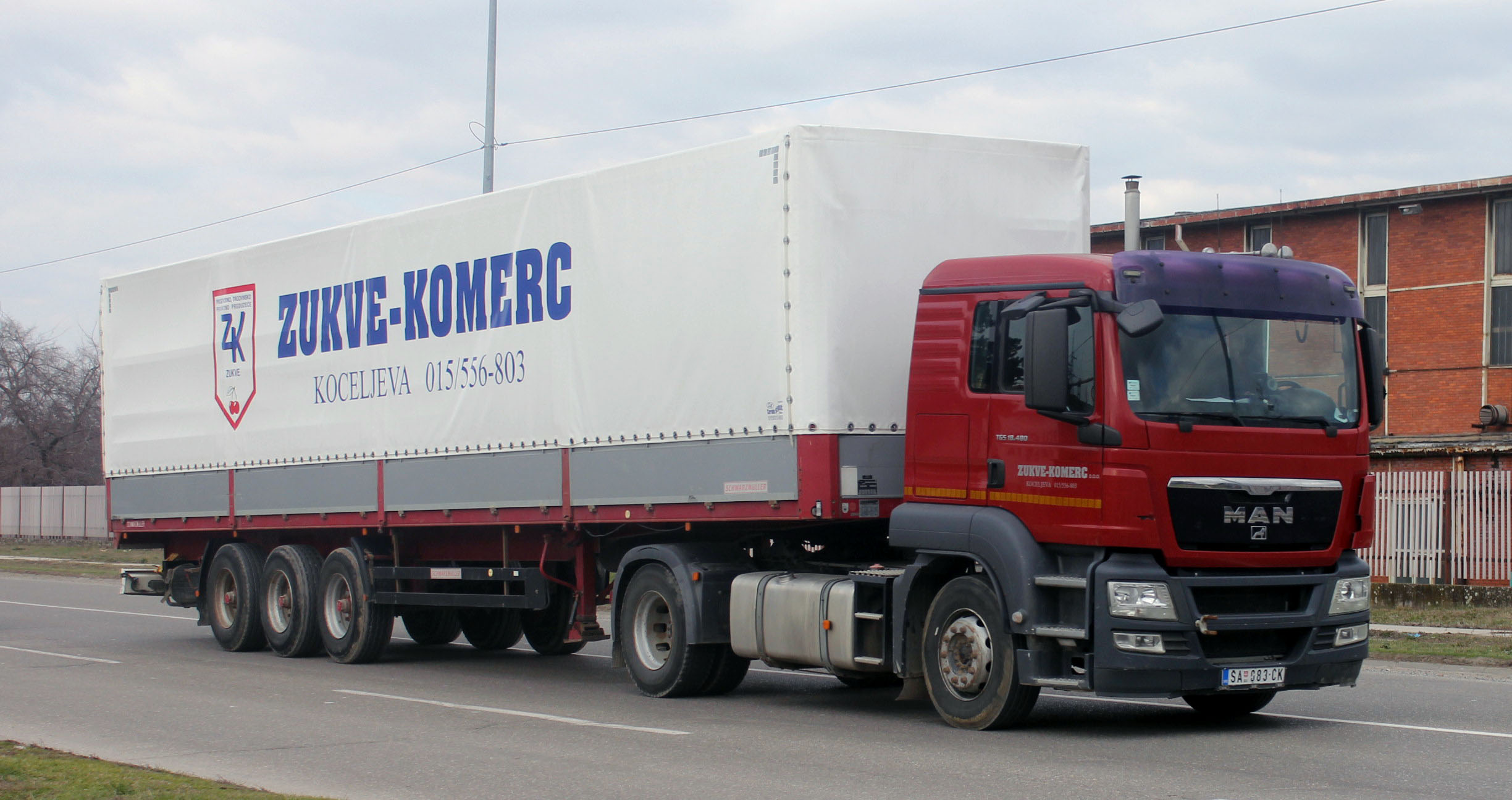 MAN TGS 18.480 trailer truck at Šabac, Serbia.